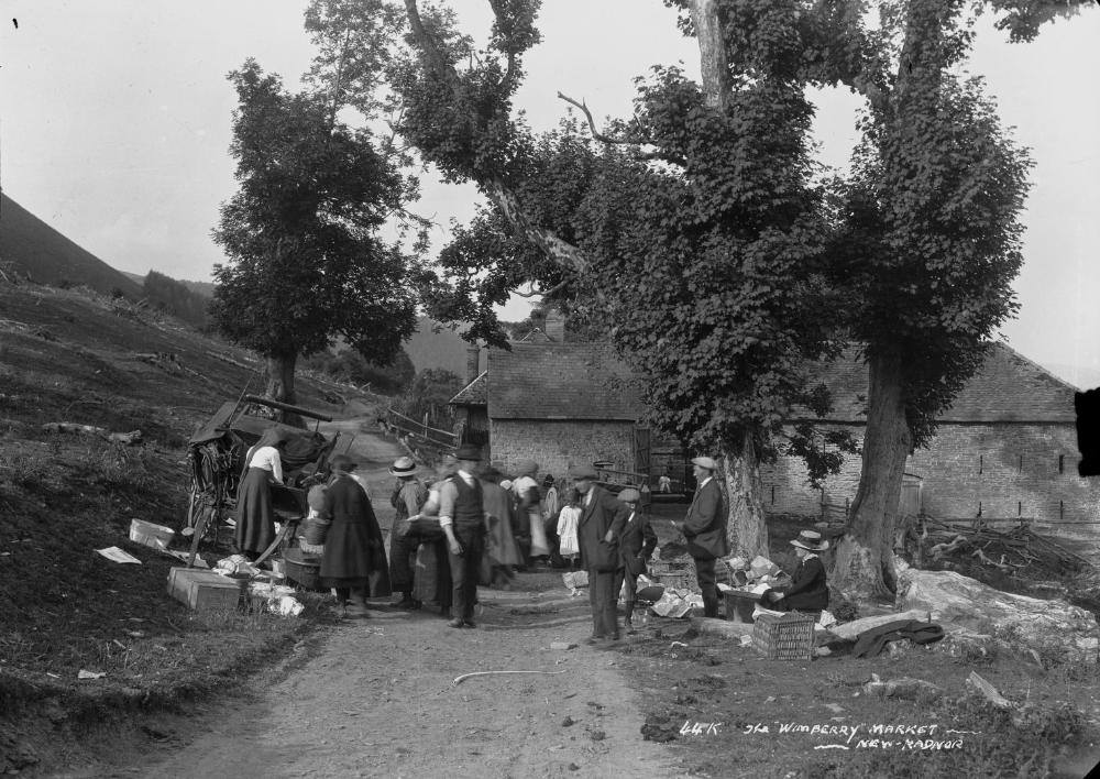 Abstract: The " wimberry" market New Radnor